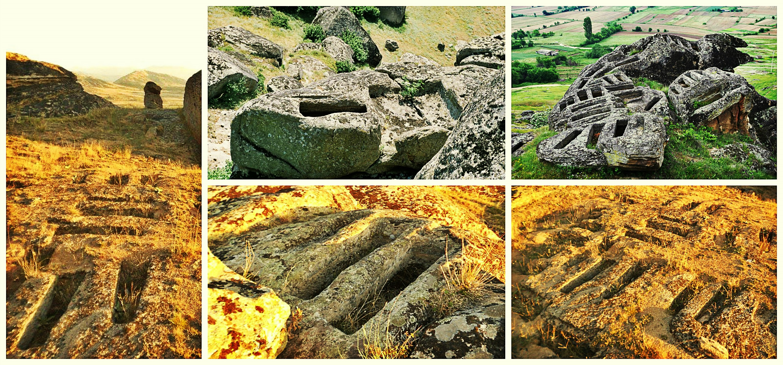 Markovi_kuli_scorpio_FYROM